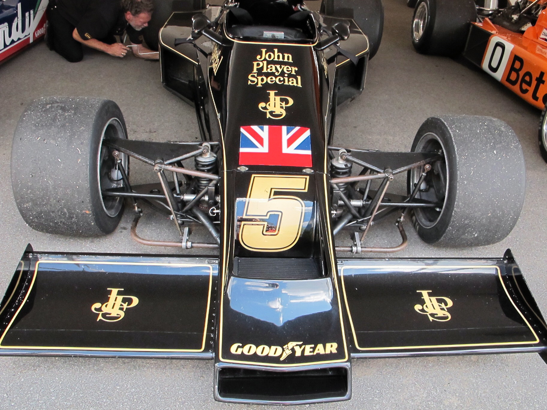 Ex-Mario Andretti Lotus 77 Formula One racing car, at Circuit Mont-Tremblant during the 2010 Legends of Motorsport meeting.